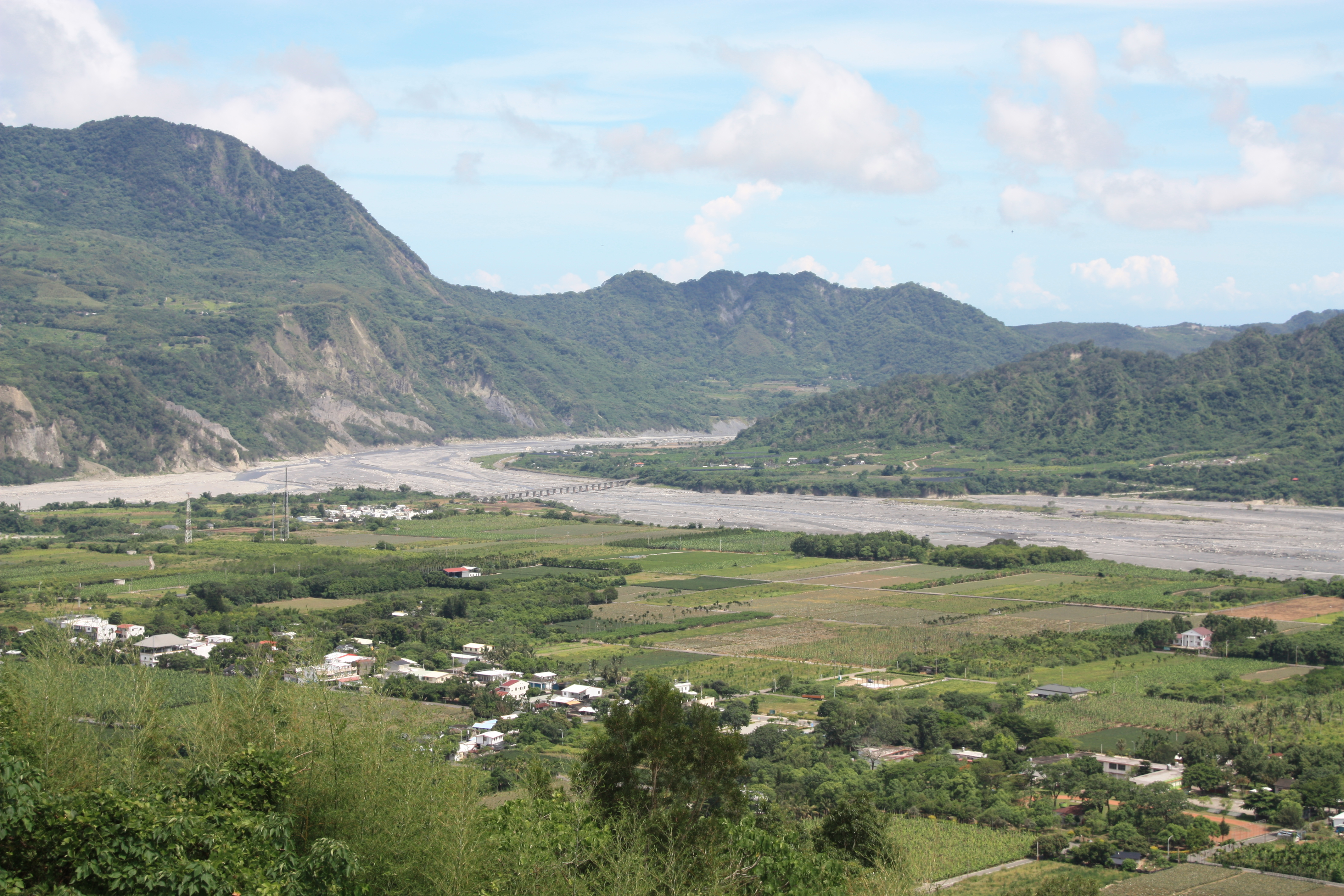 Taitung County Luye Township View to Pei Nan Ta river (left and behind) and Pei Ssu Chiu river (center)